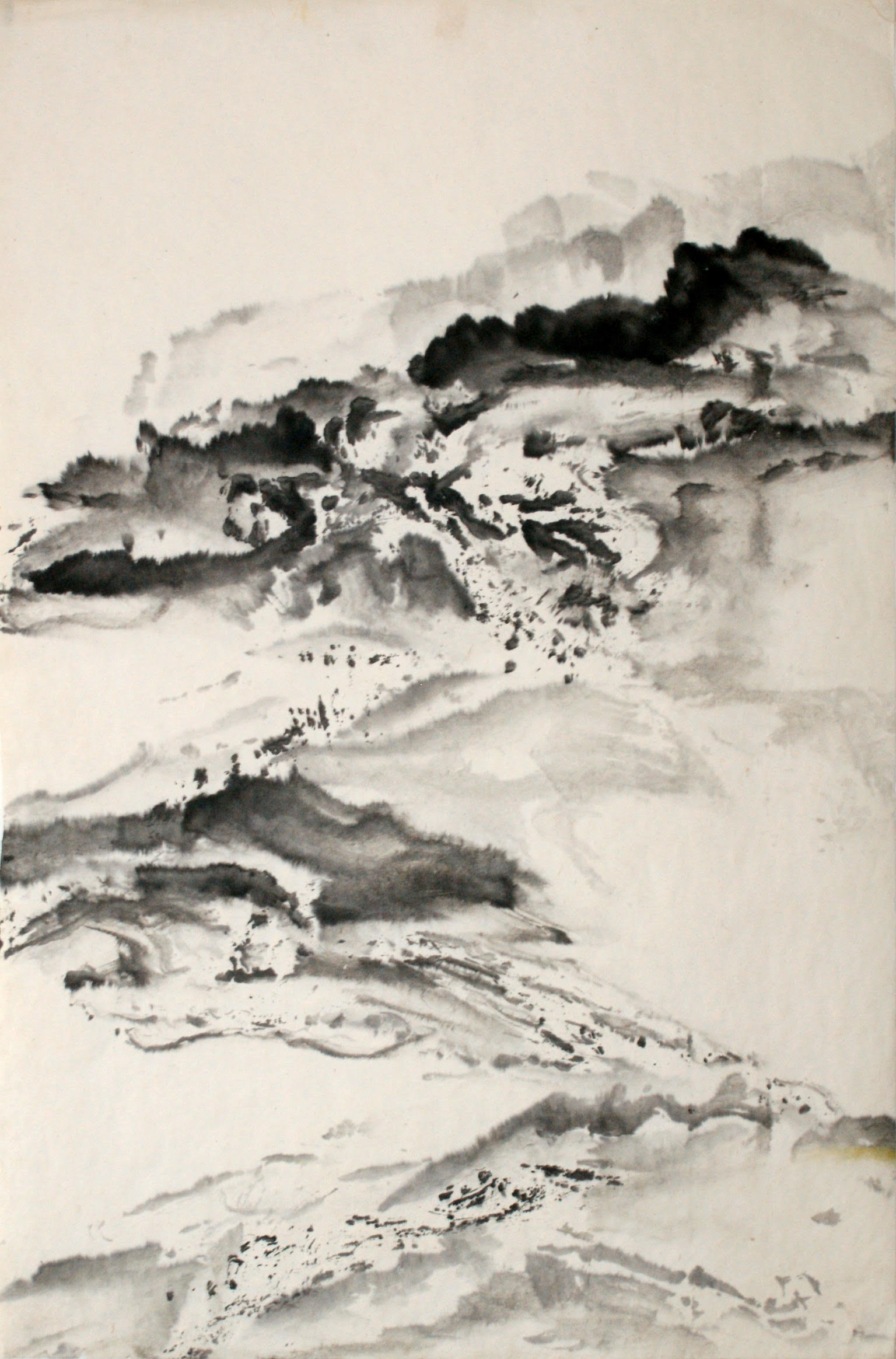 Sans titre, Encre de Chine sur Papier 1981